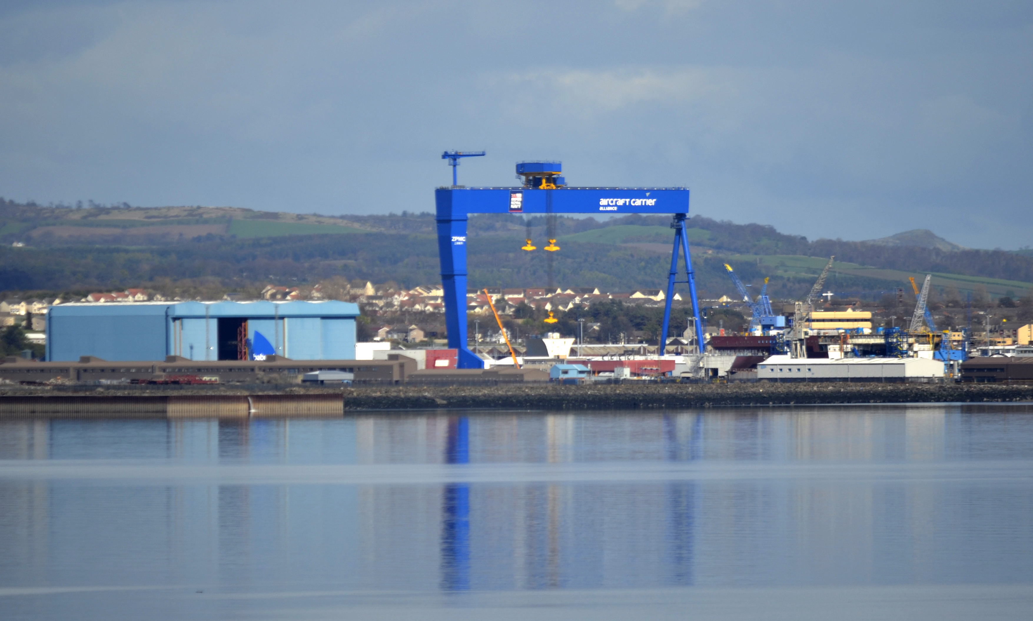 Aircraft carrier construction yard, Rosyth